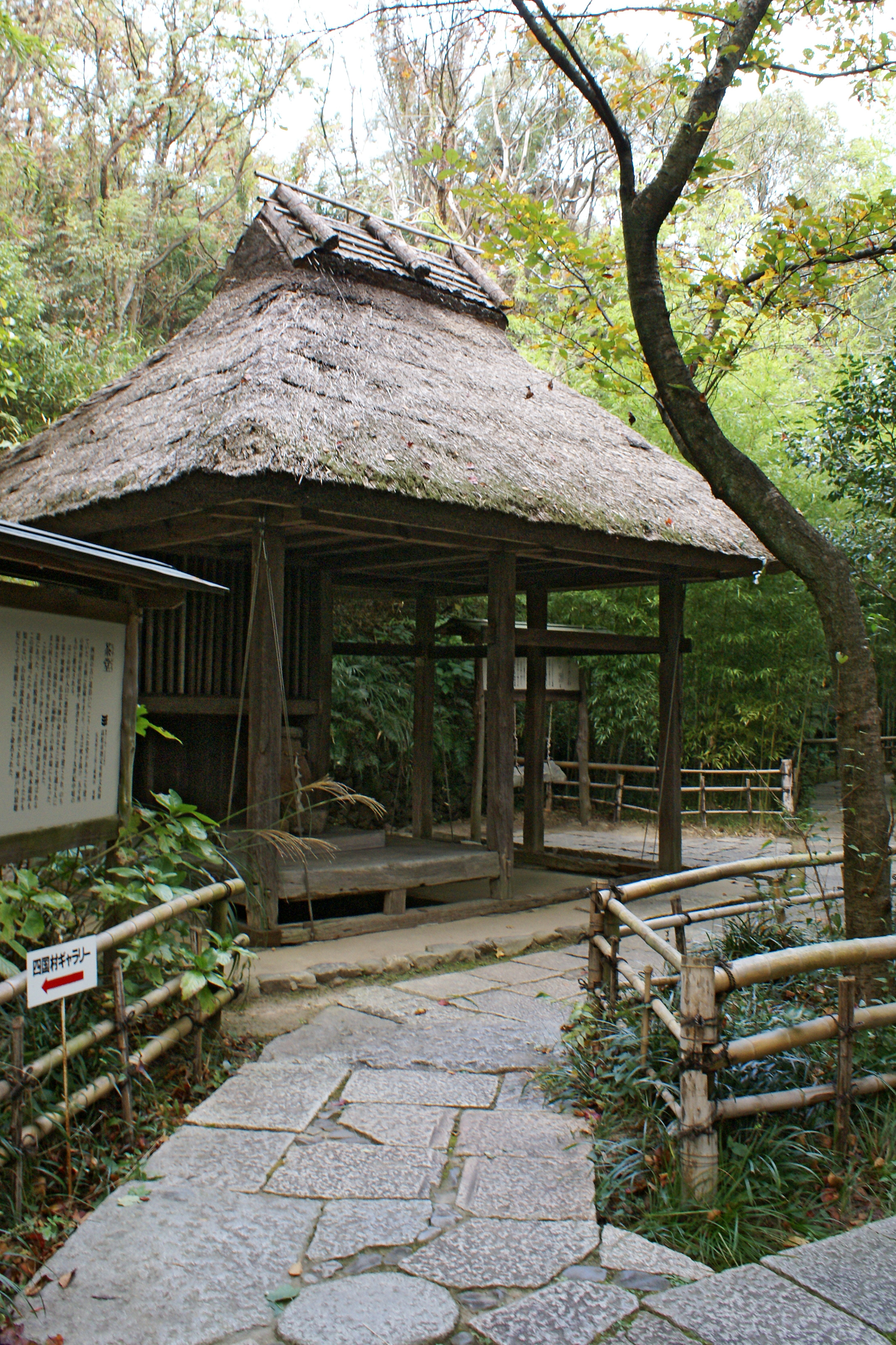 Shikokumura in Takamatsu Kagawa prefecture, Japan